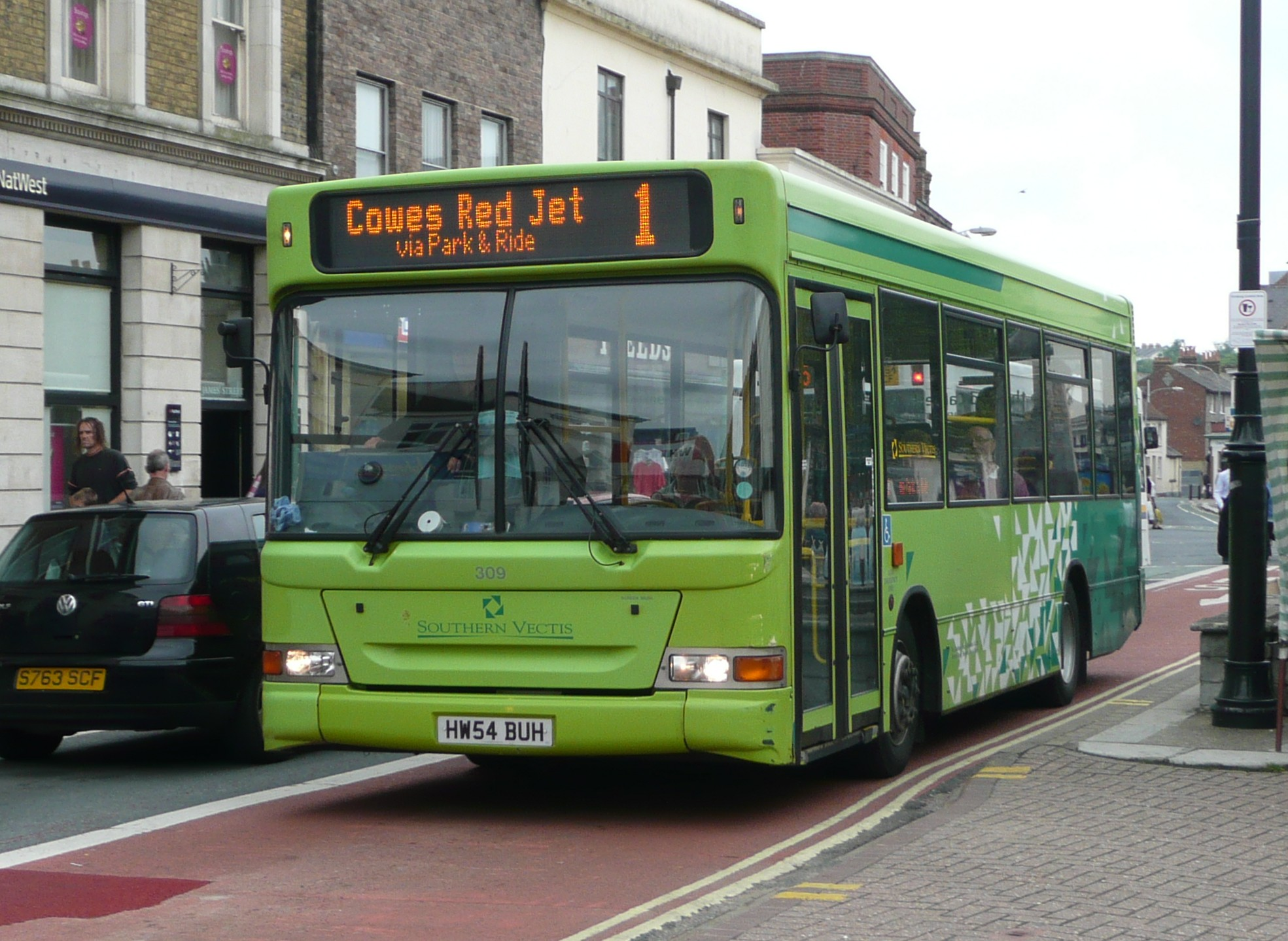 Southern Vectis 309 (HW54 BUH), a Dennis Dart SLF/Plaxton Pointer 2 MPD, in St James Square, Newport, Isle of Wight, on route 1.